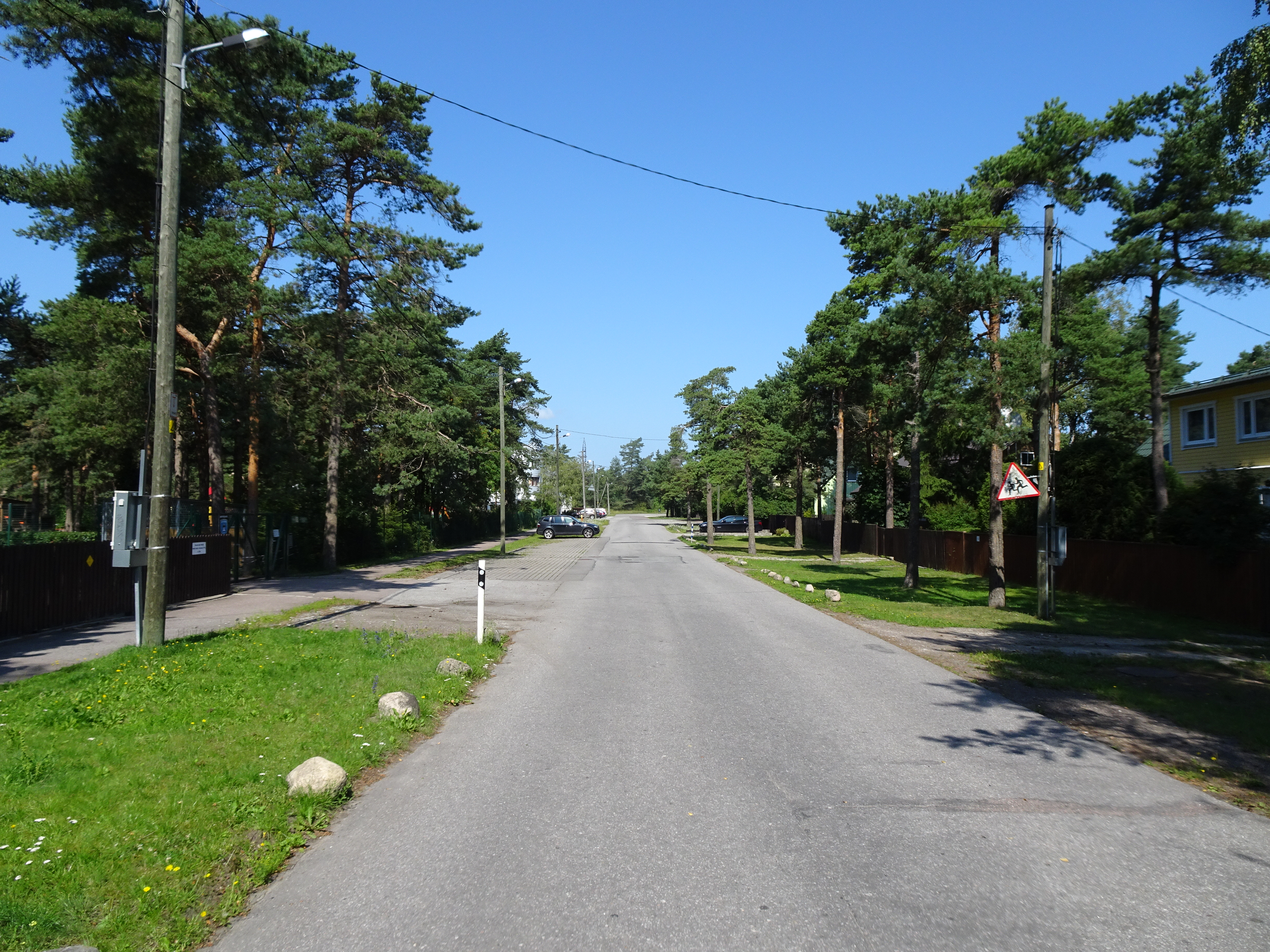 Raba Street in Tallinn, Estonia